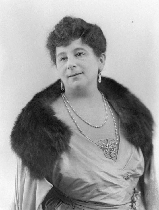 The baroness Emma Orczy.